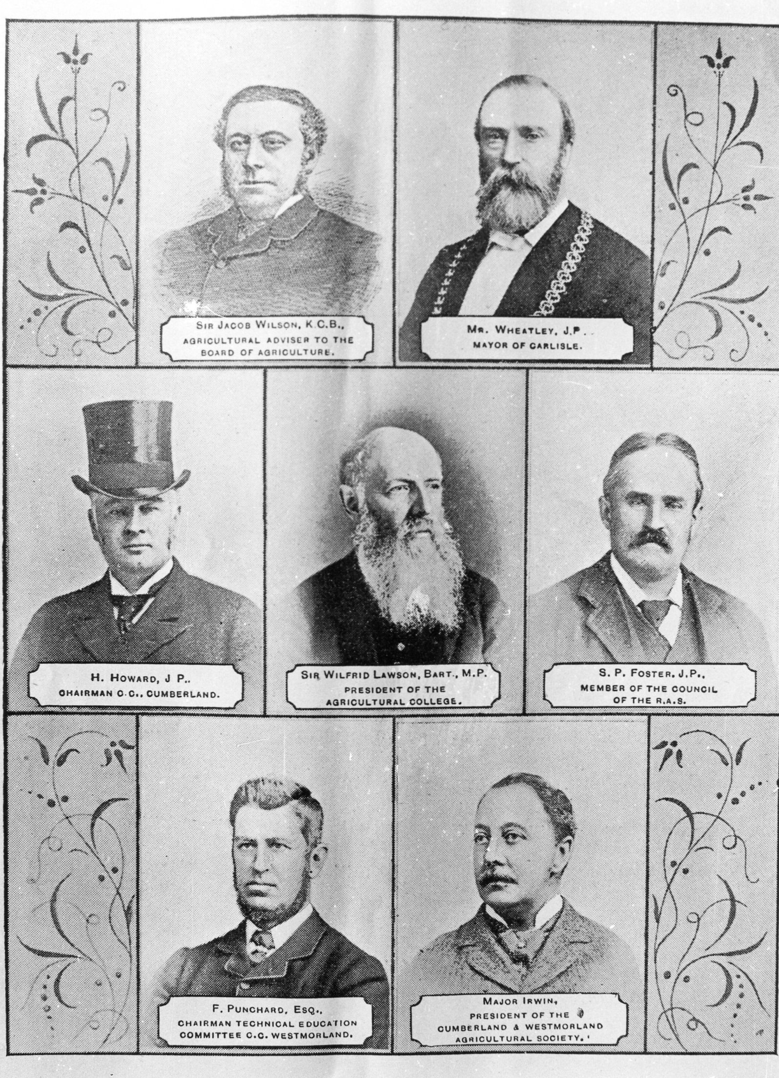 Photo